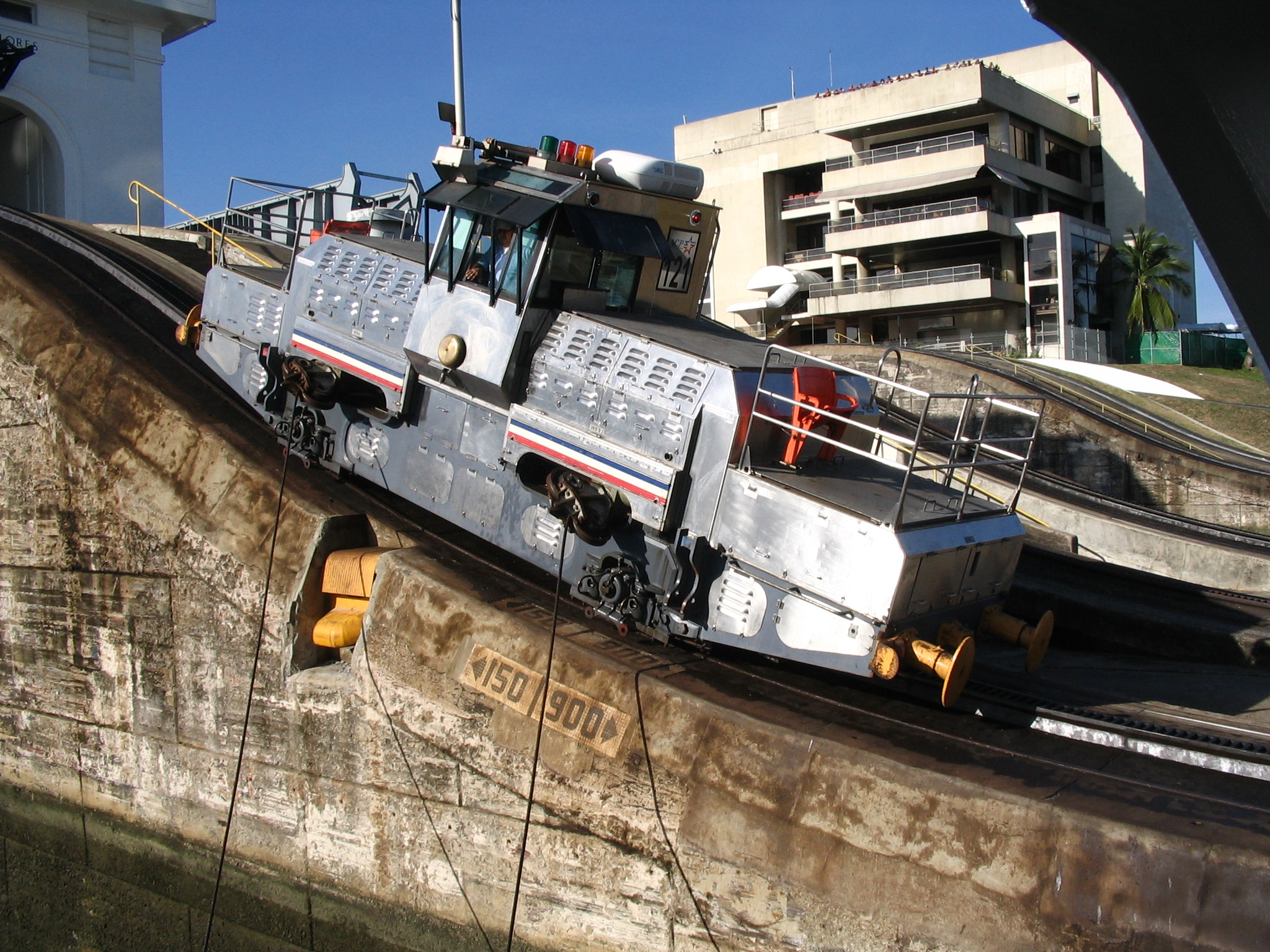 A mule is holding the MS Maasdam, a Holland America Line cruise ship, during a transit of the Miraflores locks in the Panama Canal. The Miraflores Visitors Center is visible in the background.